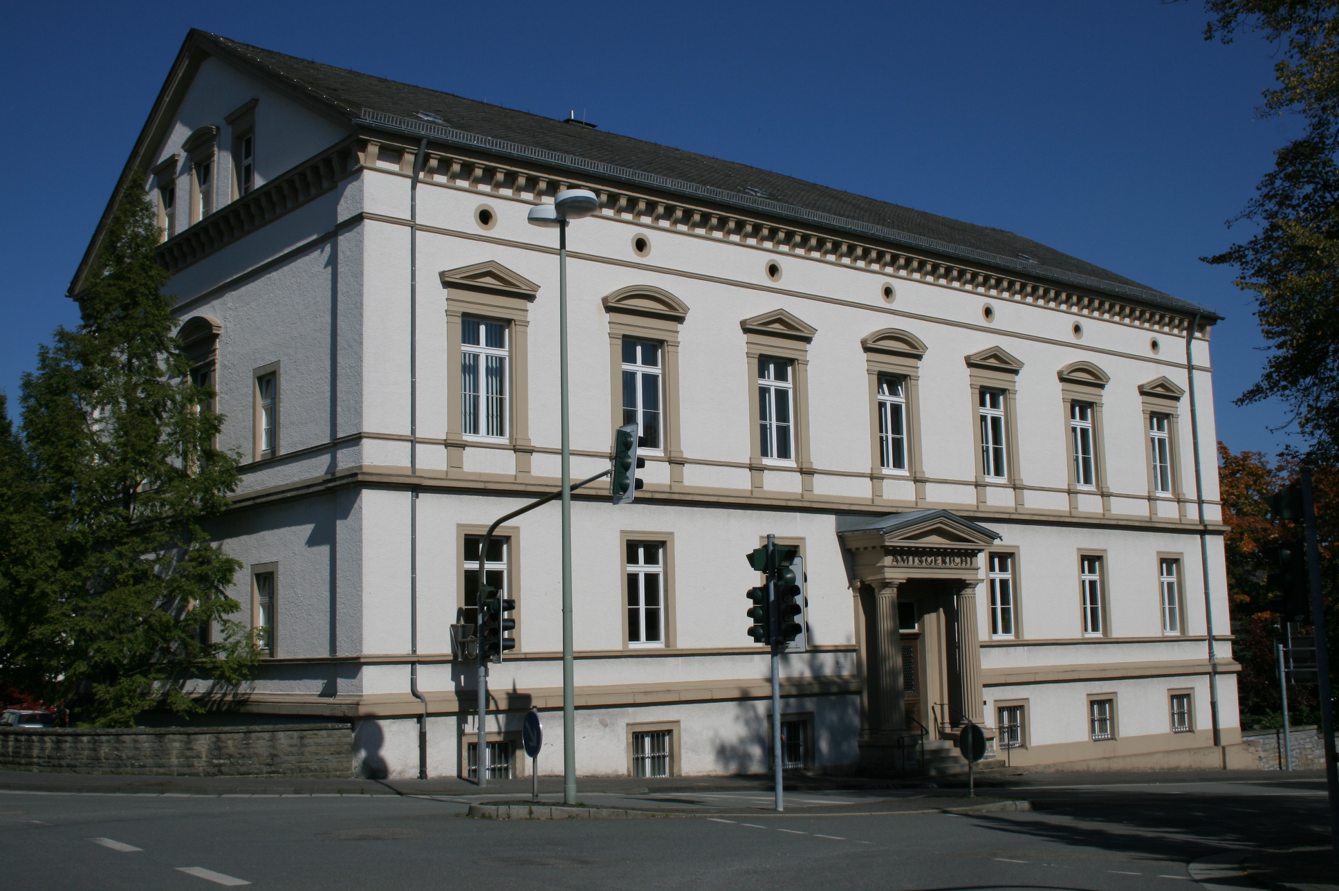 Amtsgericht Brilon, Bahnhofstraße 32 in Brilon. This image shows a heritage building in Germany, located in the North Rhine-Westphalian city Brilon.